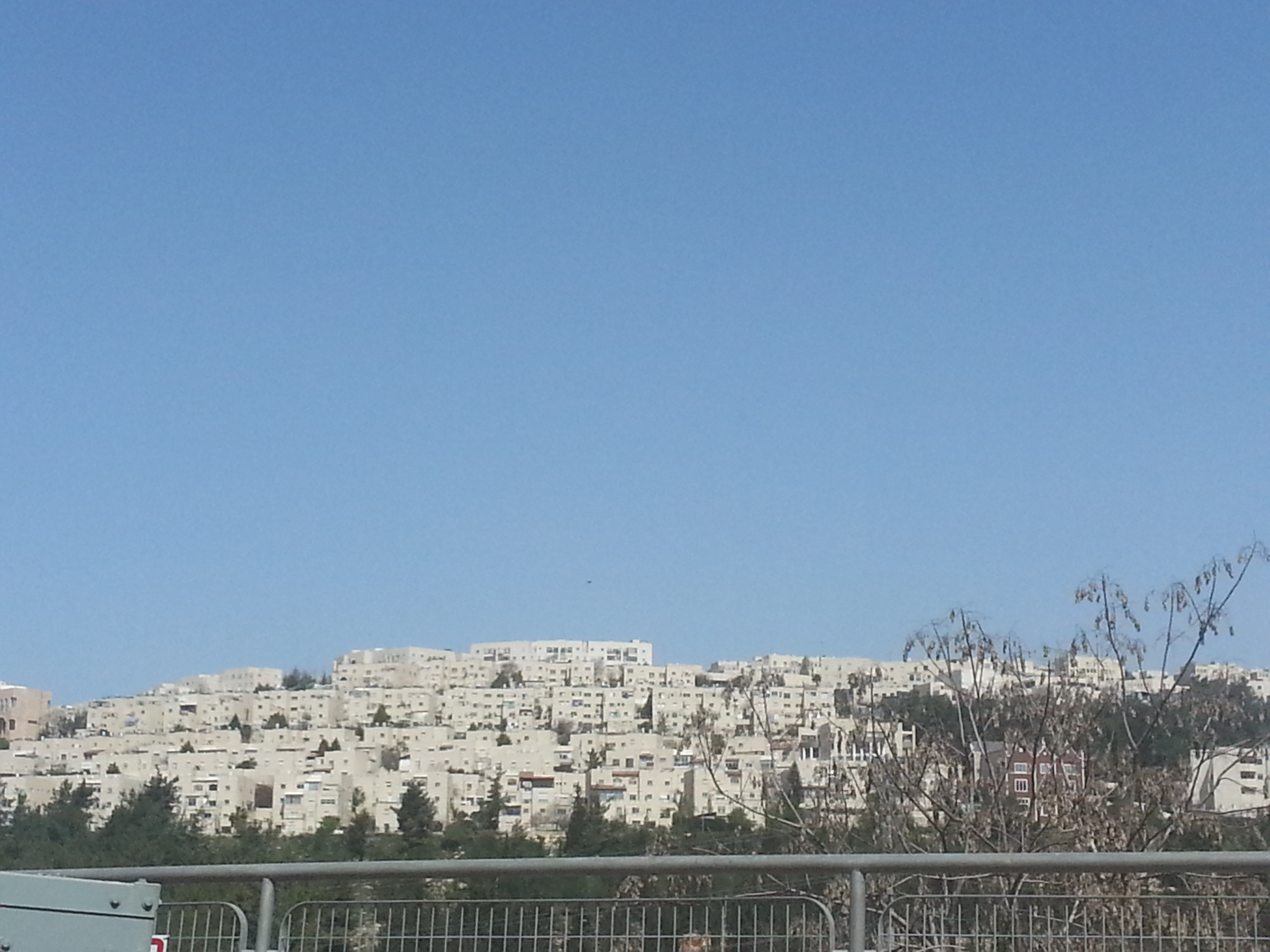 Geography of Israel